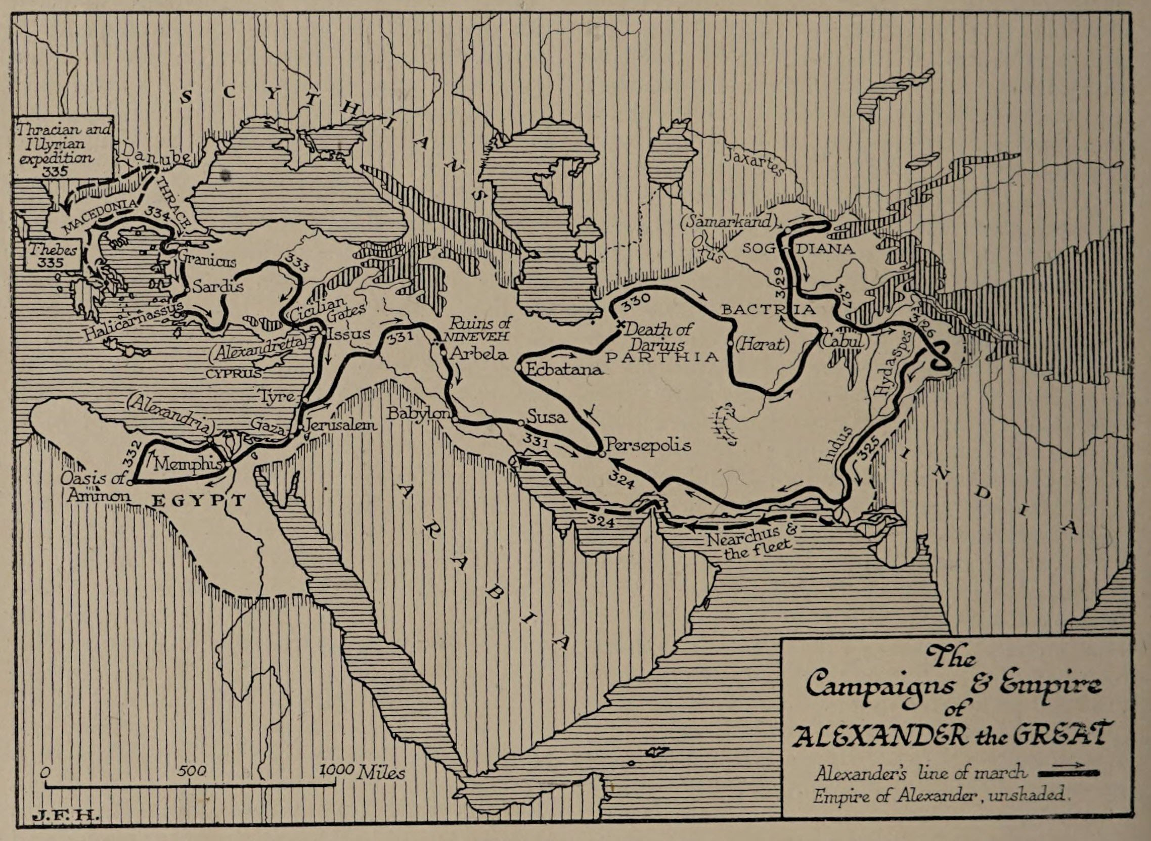 Illustration from page 178 of The outline of history; being a plain history of life and mankind, the definitive edition revised and rearranged by the author, by H.G. Wells, illustrated by J. F. Horrabin, showing "The Campaigns & Empire of Alexander the Great."